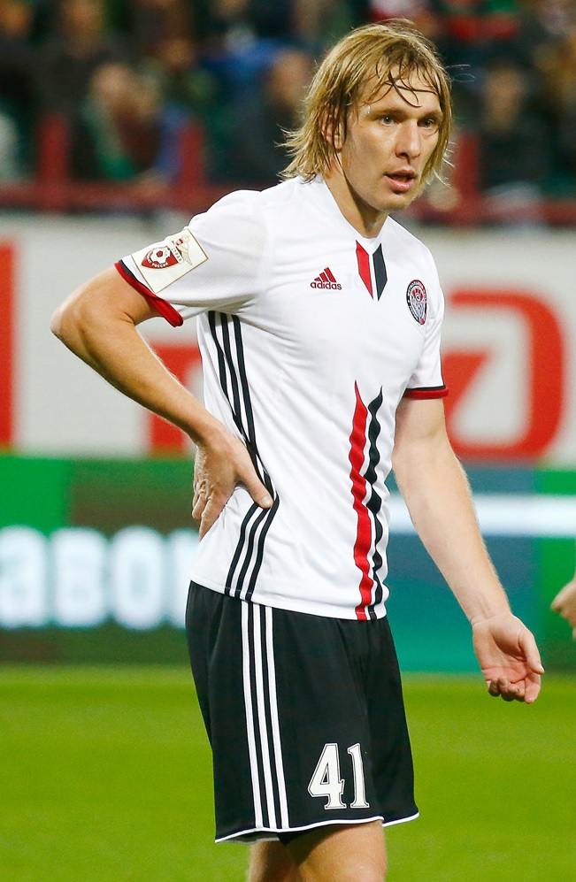 Dmitri Belorukov with FC Amkar Perm in a game against FC Lokomotiv Moscow.